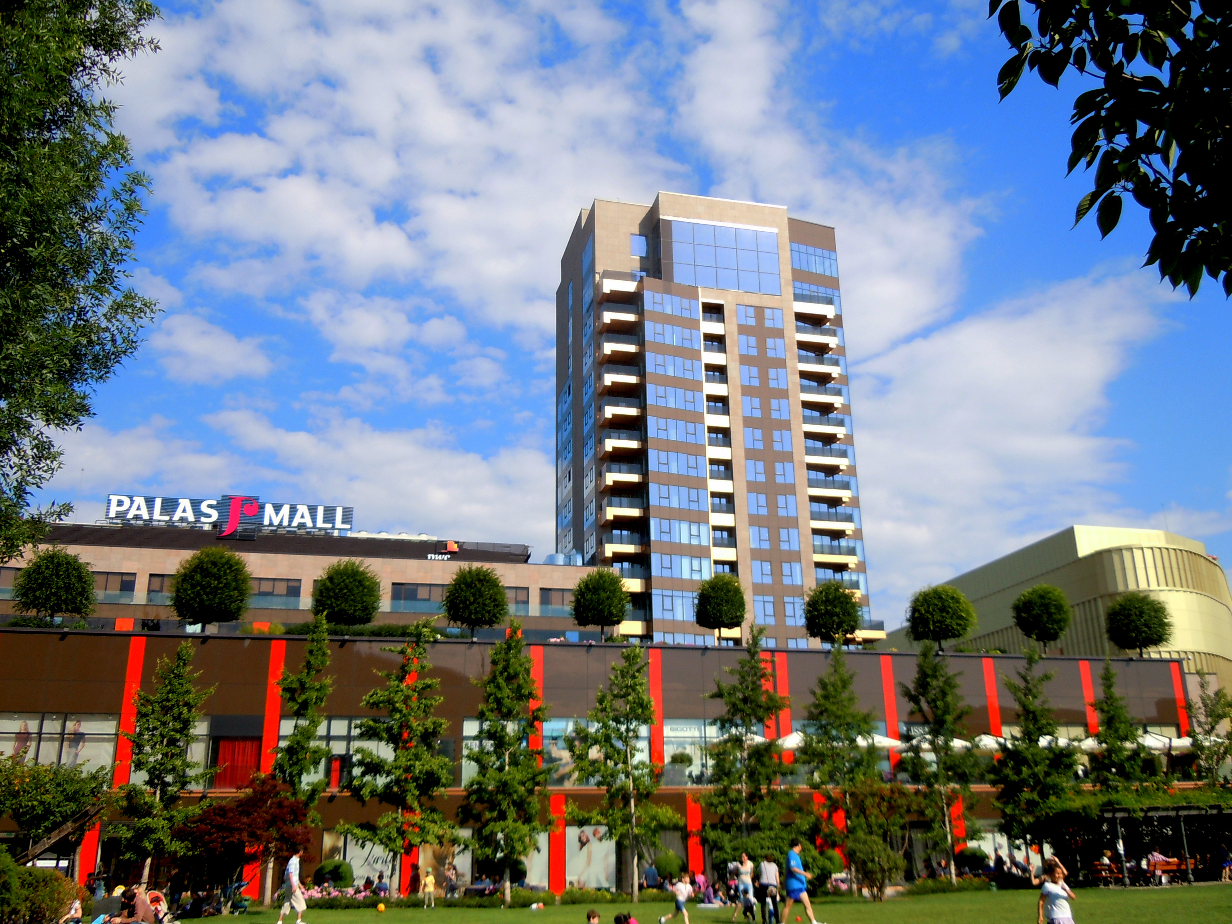 Public Garden Palas, Iaşi ,Romania